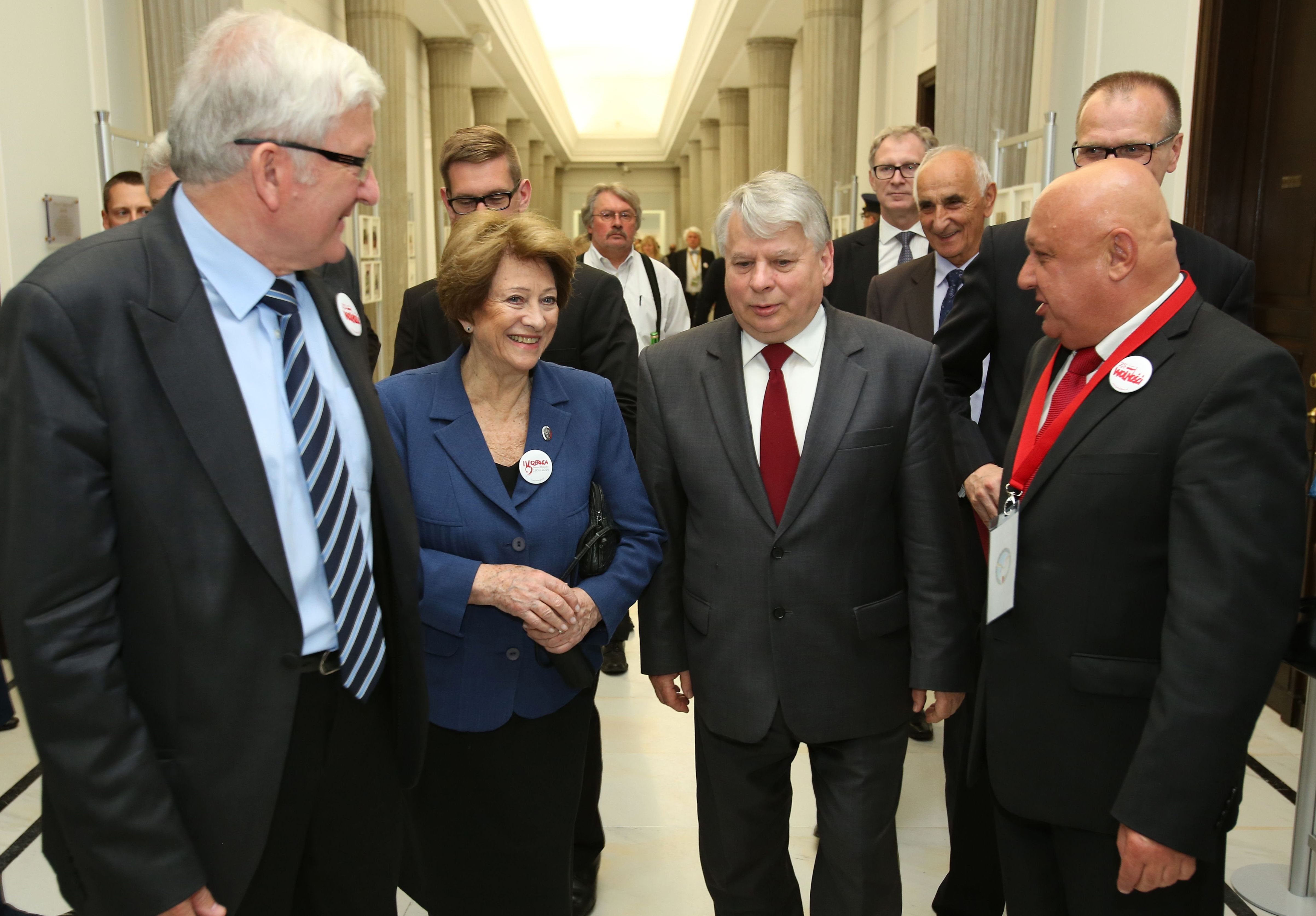 Marek Ziółkowski, Barbara Borys-Damięcka, Bogdan Borusewicz and Piotr Zientarski in the Polish Sejm